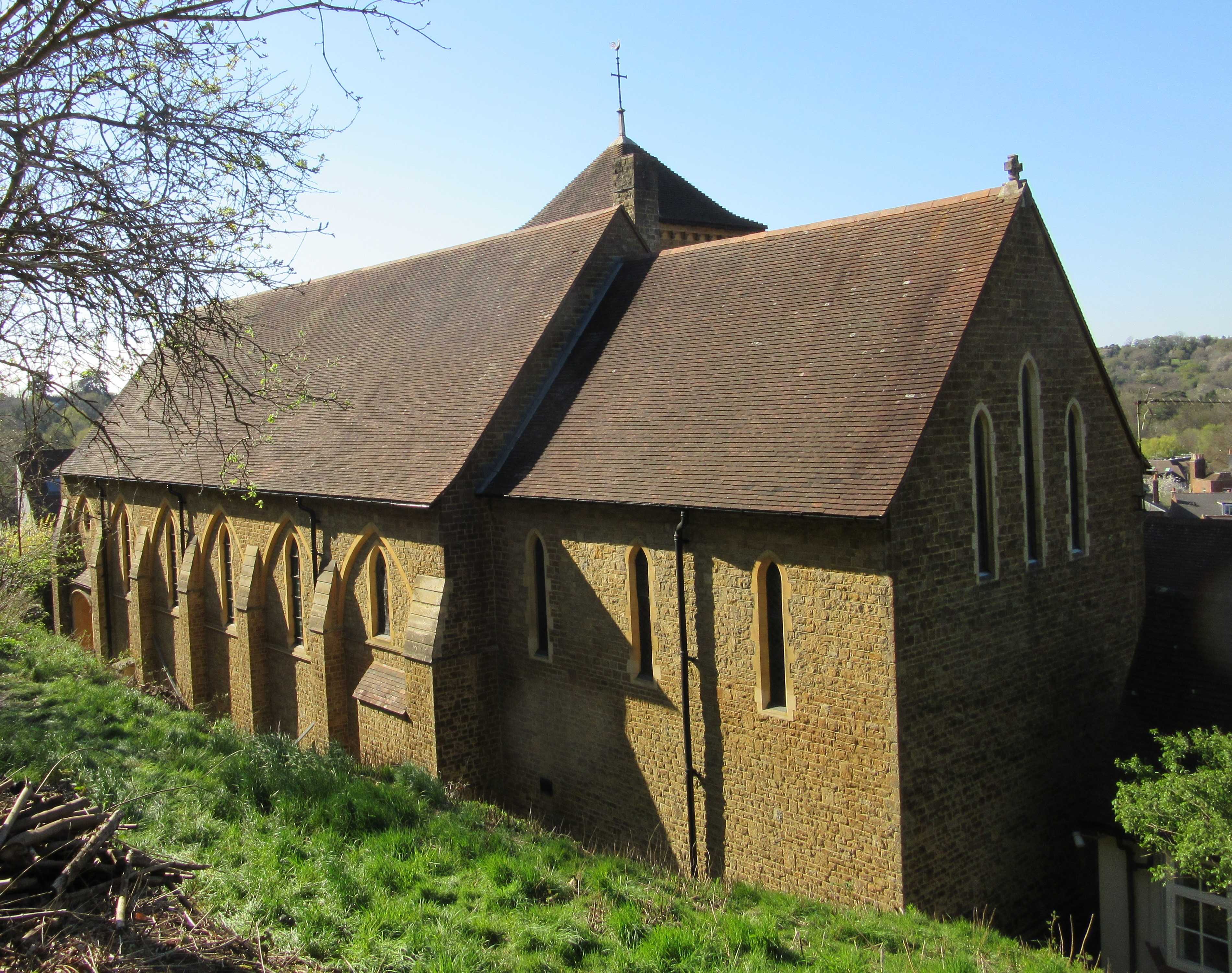 St Edmund King and Martyr's Church, Croft Road, Godalming, Borough of Waverley, Surrey, England. The Roman Catholic parish church of Godalming.